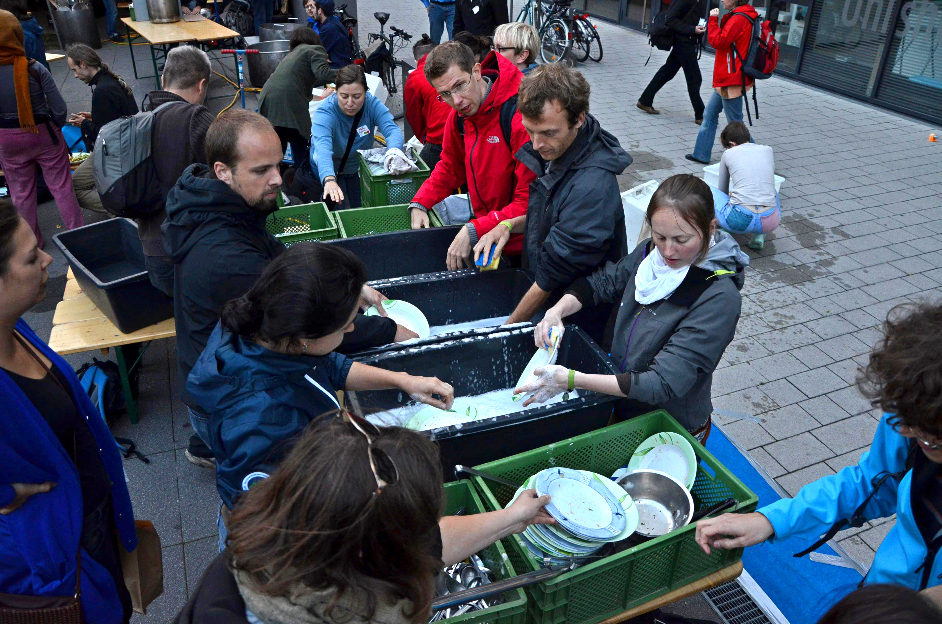 washing-up, 4th International Conference on Degrowth, Leipzig, 2014.